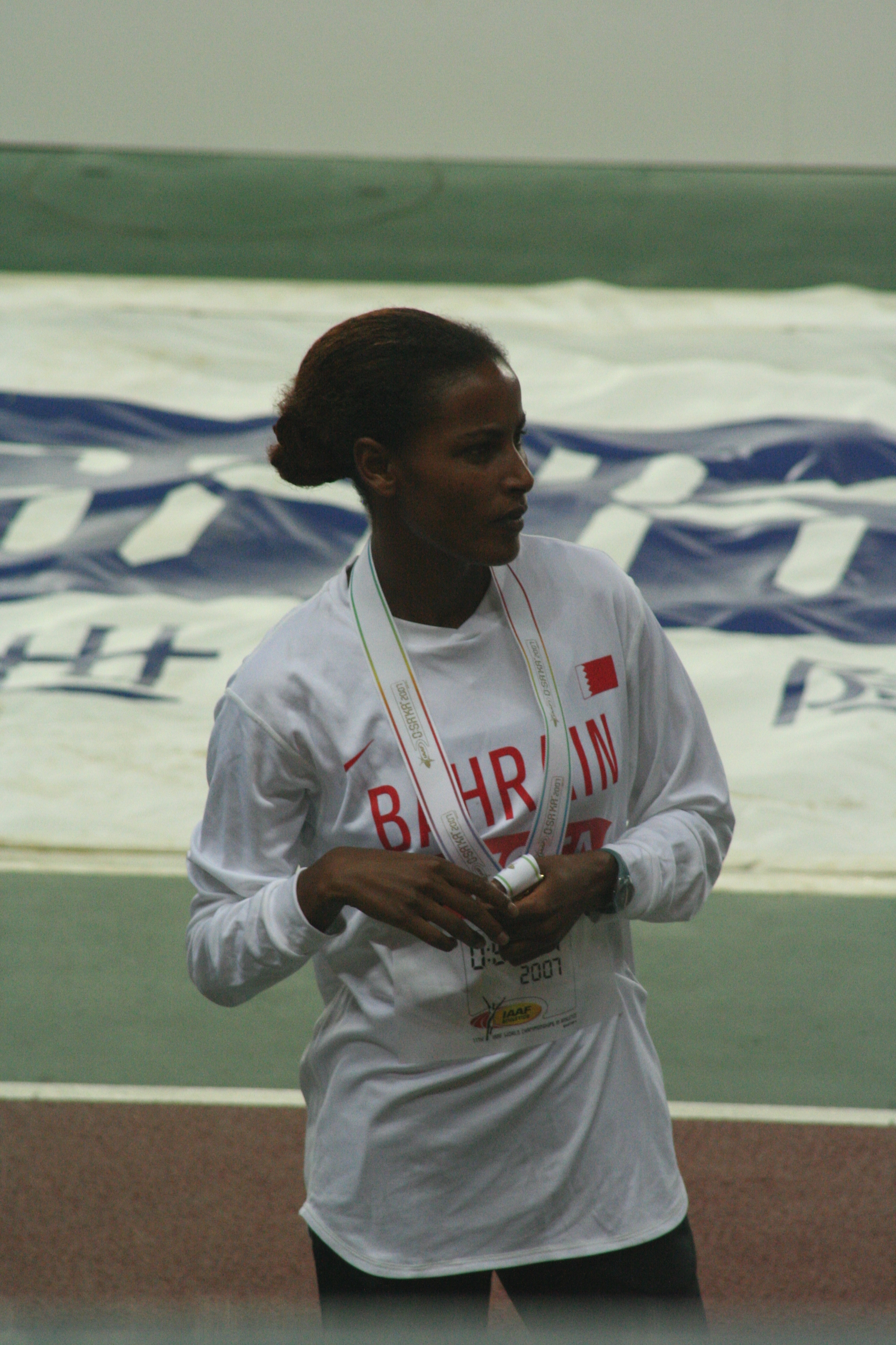 World Athletics Championships 2007 in Osaka - Maryam Yusuf Jamal from Bahrain, winner of the women's 1500 metres, after the victory ceremony